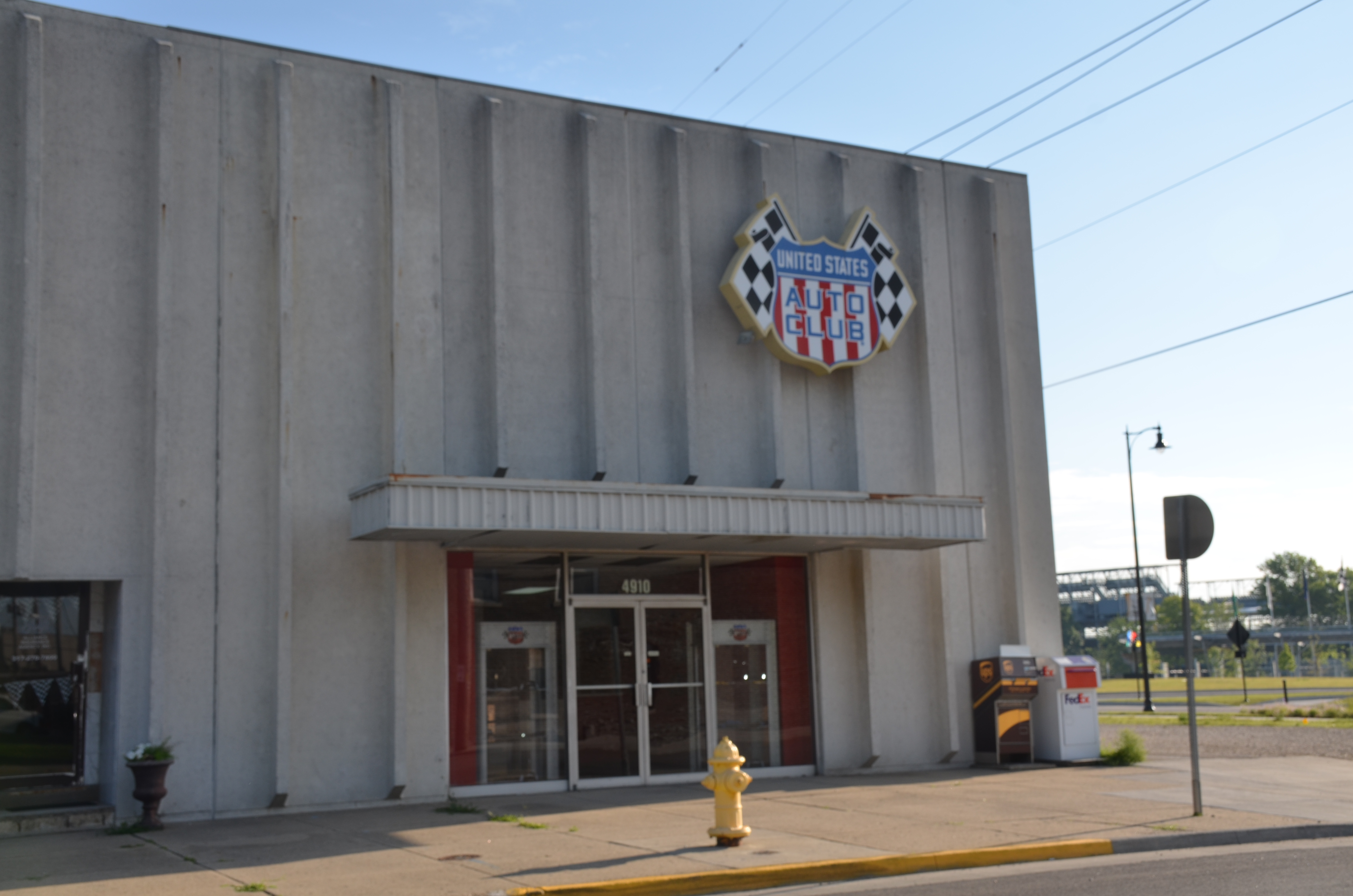 United States Auto Club (USAC) office in Speedway, Indiana.